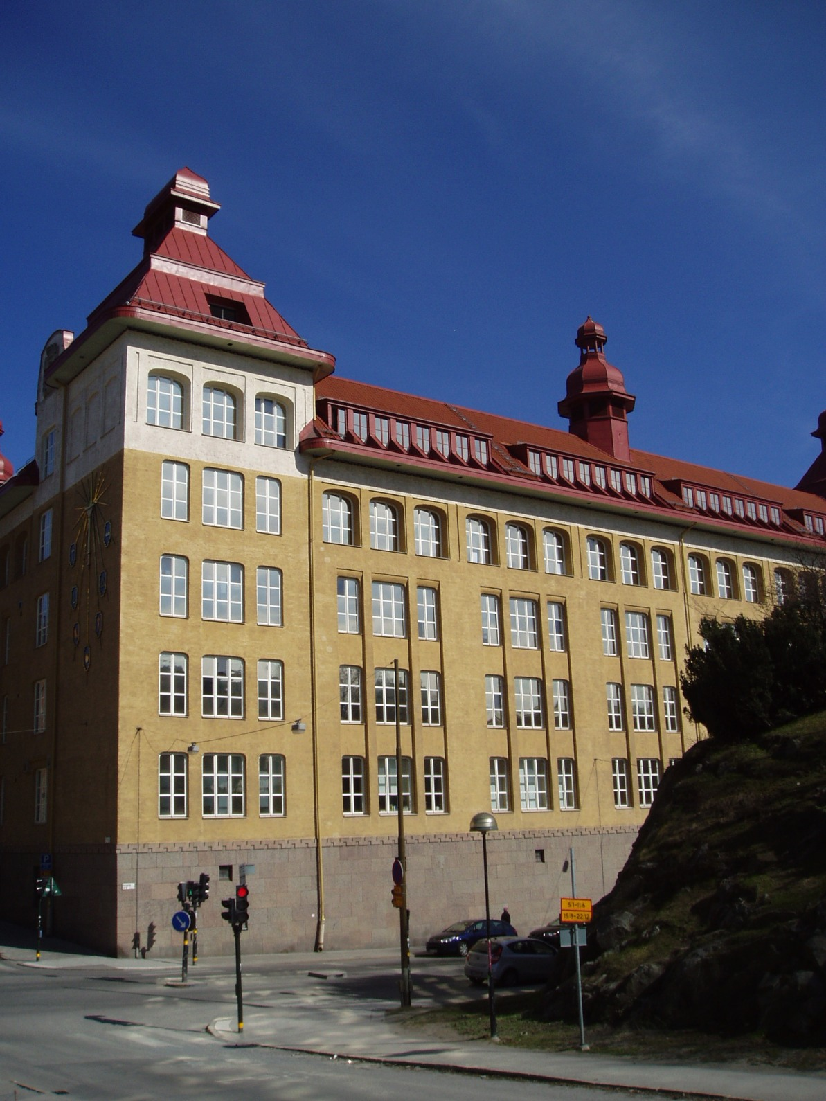 Adolf Fredriks skola (musikklasser), school in Stockholm